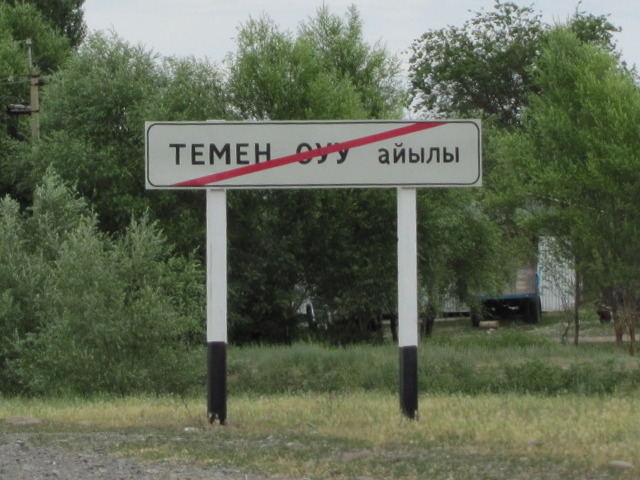 The limits of Temen-Suu village in Kyrgyzstan Кыргызча: Кыргызстандагы Темен-Суу айылынын чети